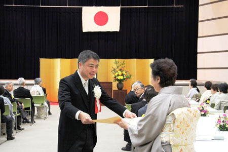 Mitsuru Sakurai, Senior Vice-Minister of Health, Labour and Welfare, conducted an investiture ceremony at the Central Government Building No.5 in Chiyoda Ward, Tōkyō Metropolis on November 15, 2012. (For terms of use, see 利用規約｜厚生労働省.)